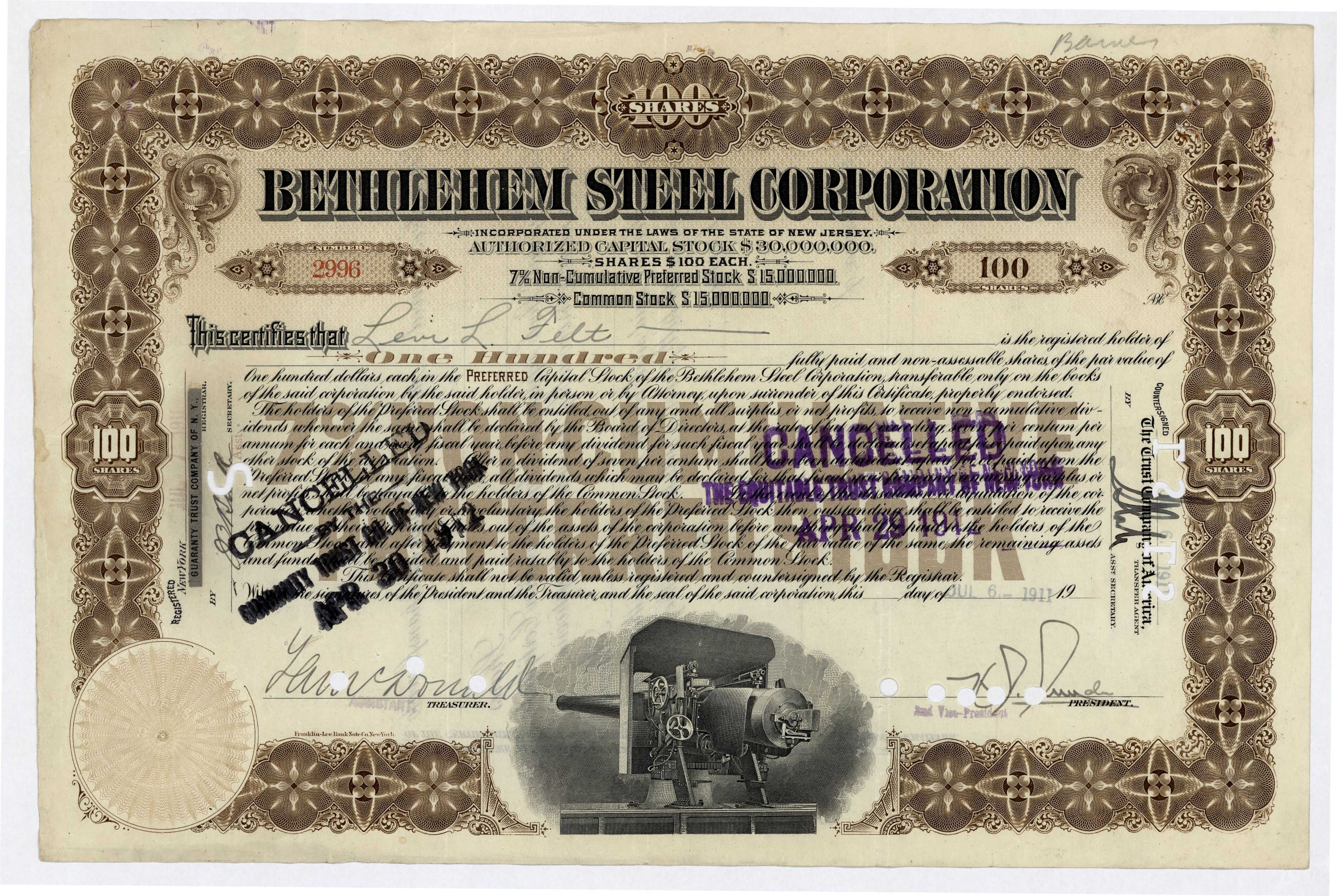 Share of the Bethlehem Steel Corp., issued 6. July 1911